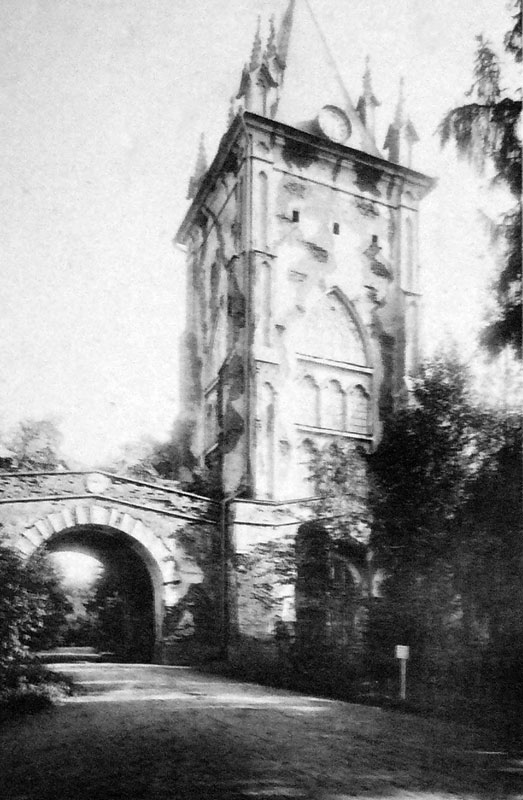 Pavilion Shapel. A kind of a facade from the park party. Tsarskoje Selo (Russia). The XIX-th century end.